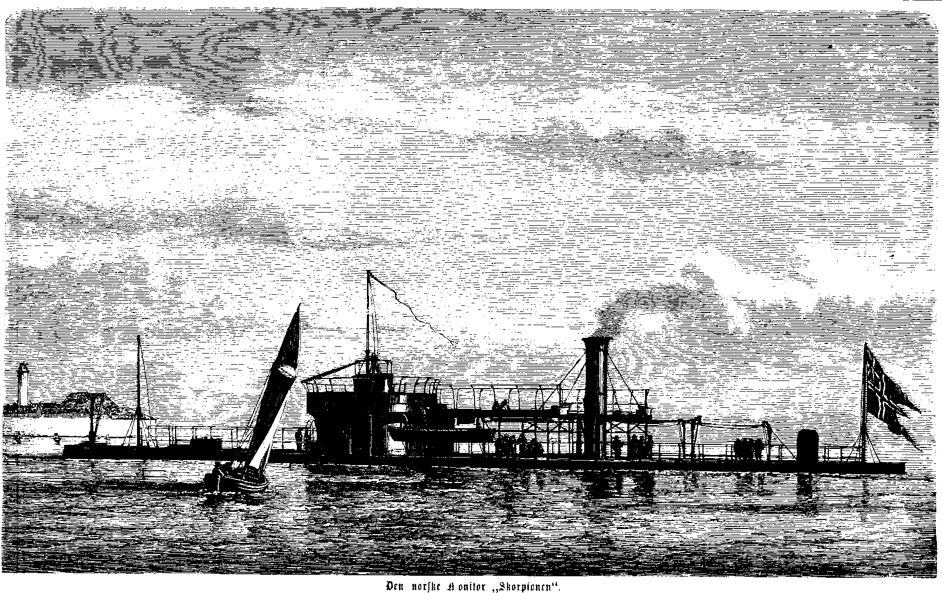 Image of the Norwegian monitor Skorpionen. Please note that the "KNM" prefix was not used before 1946, many years after this monitor was scrapped.